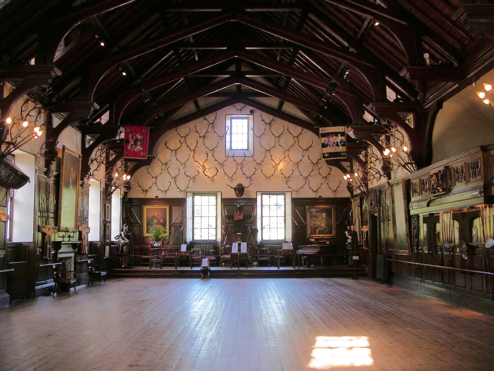 Blair Castle, interior view